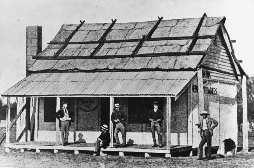 Early photograph of the Bank of New South Wales, St George, 1874 The early bank of New South Wales in St George was a gable-roofed wooden building with a bark roof and corrugated iron verandah.